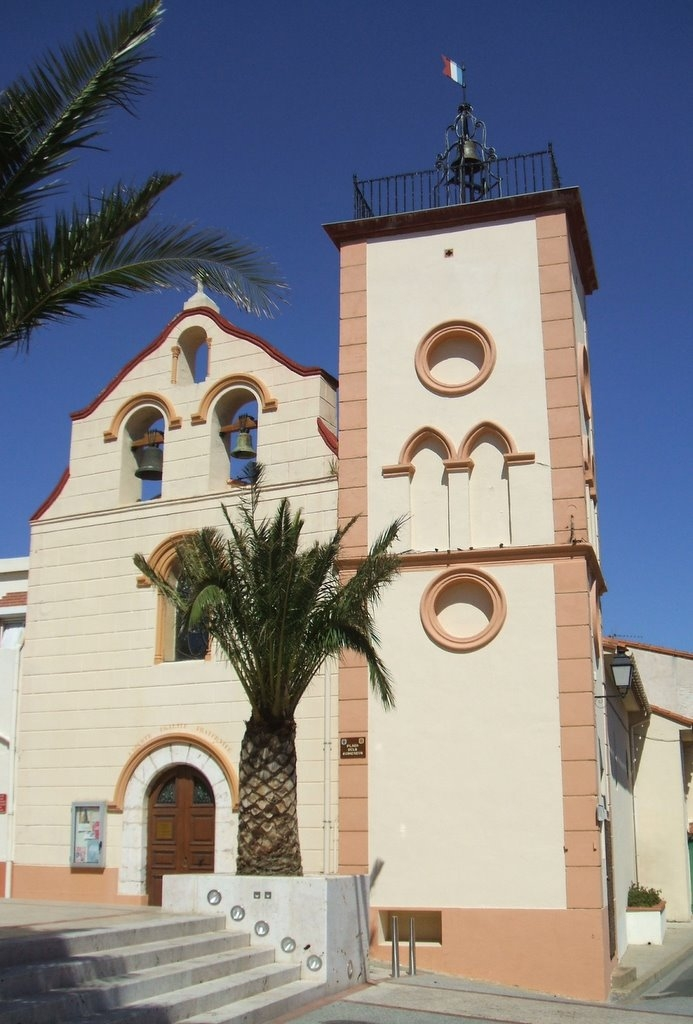 Villeneuve-de-la-Raho (département of Pyrénées-Orientales, Languedoc-Roussillon région, France) : Saint-Julien and Sainte-Basilisse church (XVIIth century)